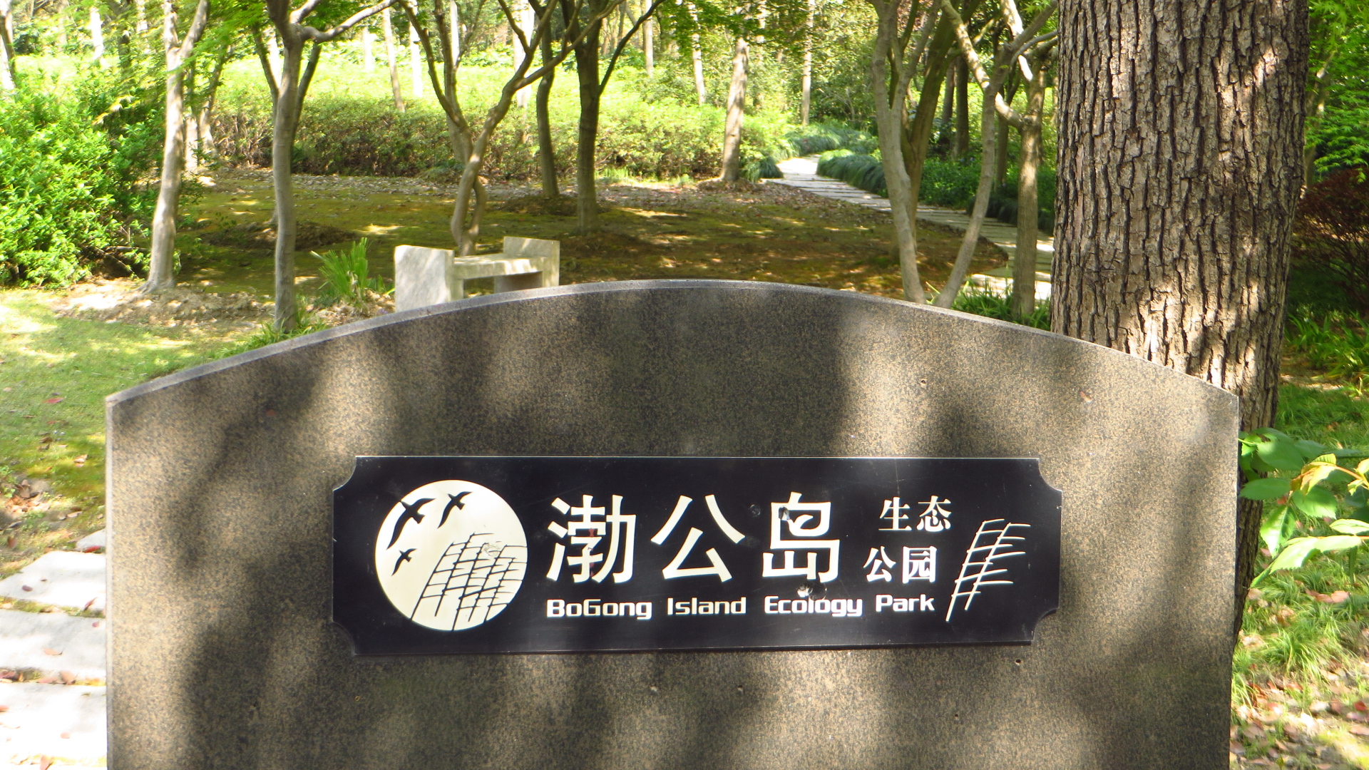 Bogong Island Wuxi